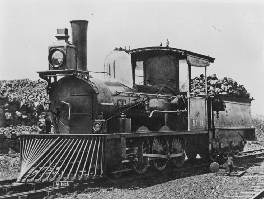 B12 Steam locomotive No. 14 made by Dubs on the Central Line, 1878.